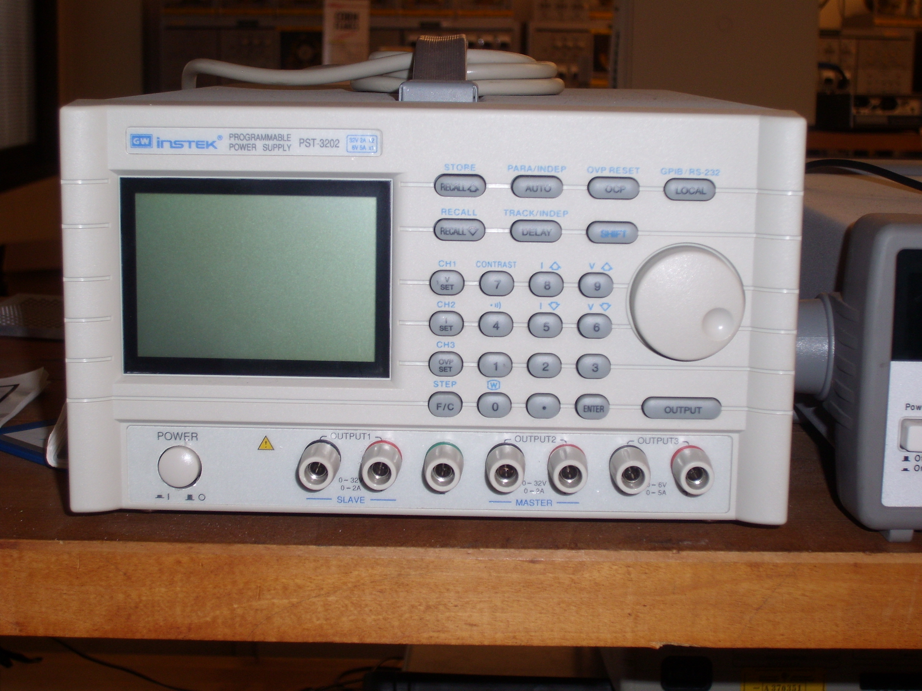 Instek PST-3202 DC power supply front panel